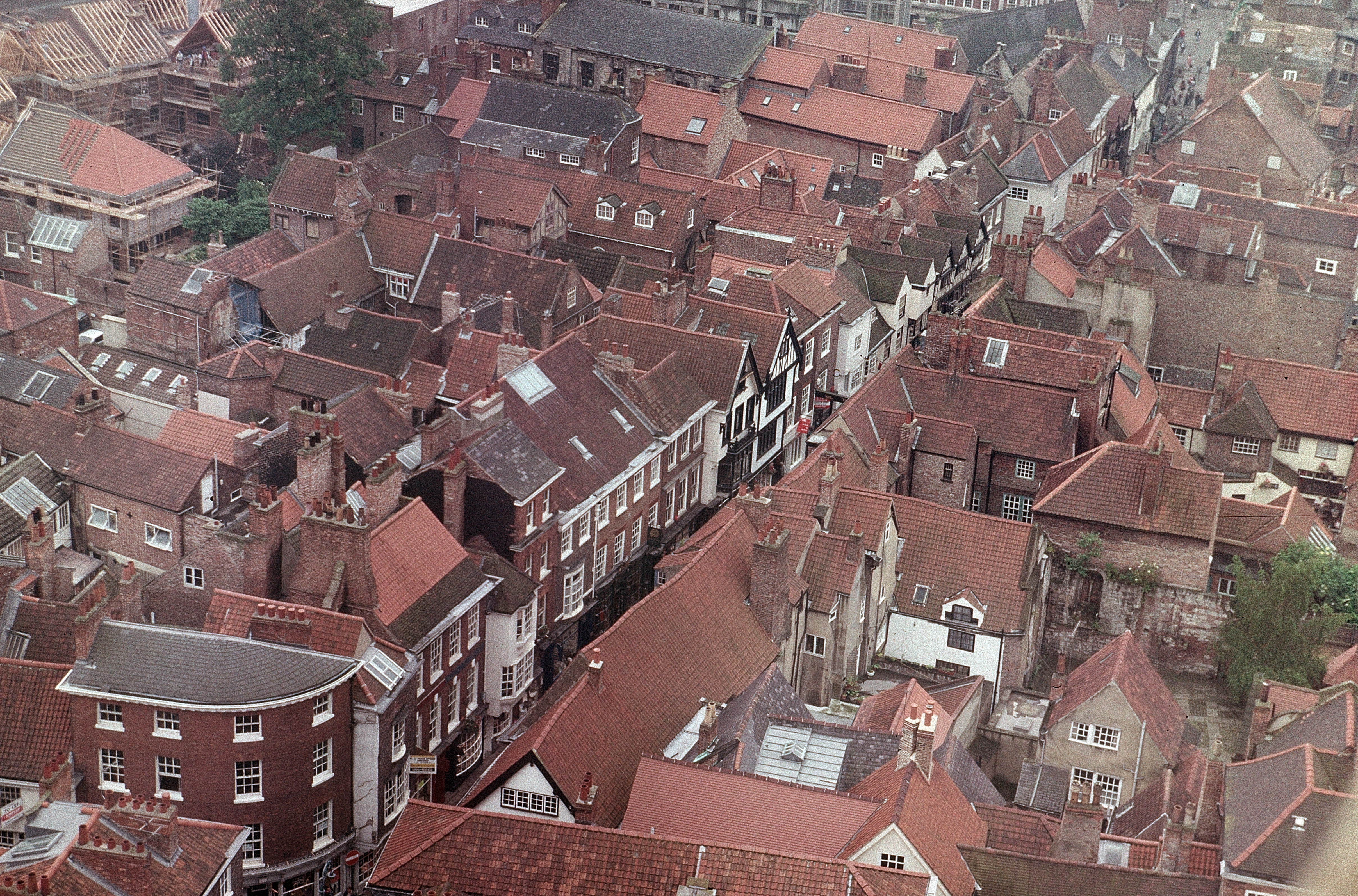 Stonegate, York and surrounding historic buildings seen from above, taken from York Minster in 1991